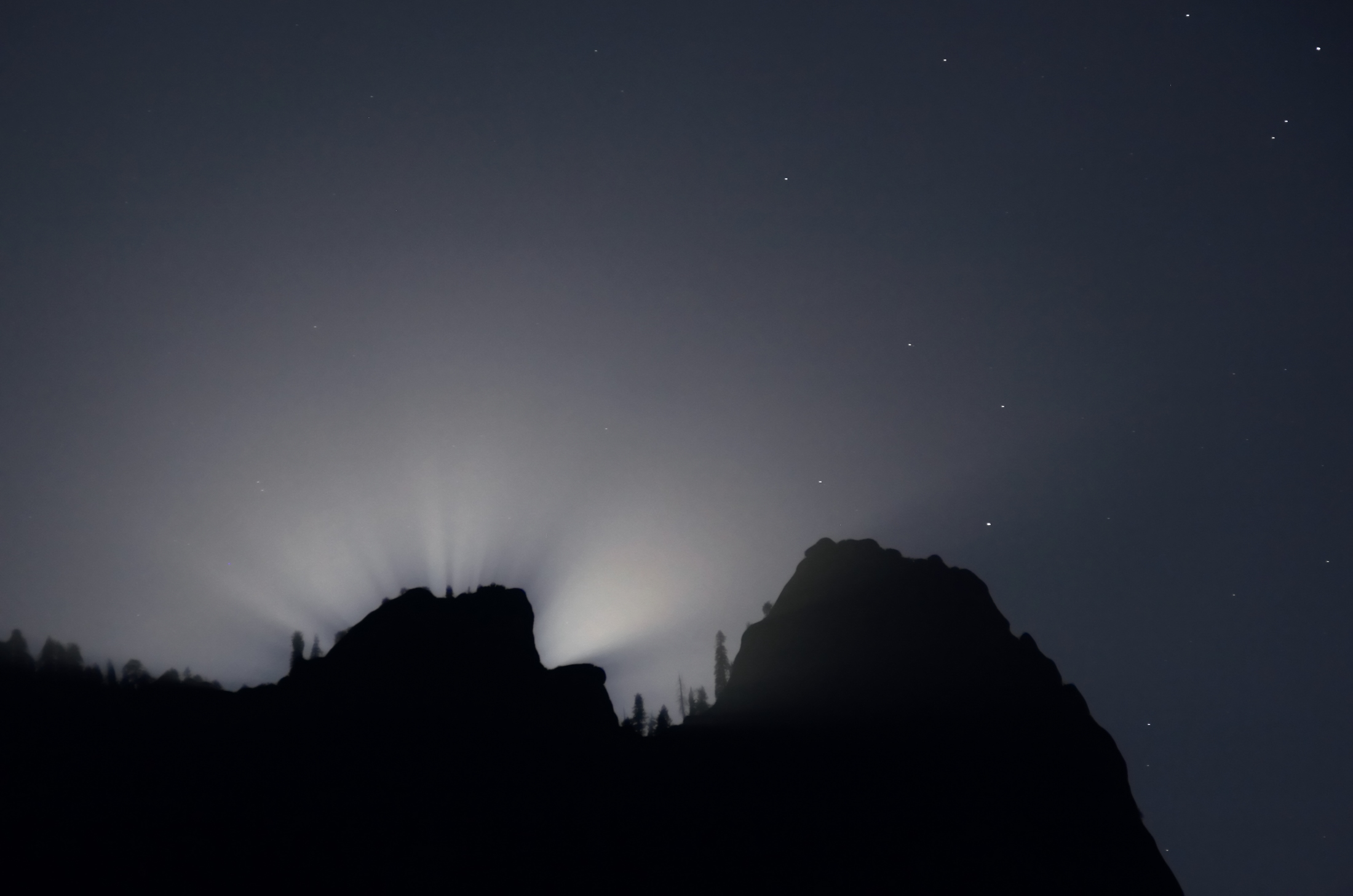 Lunar Crepuscular rays.